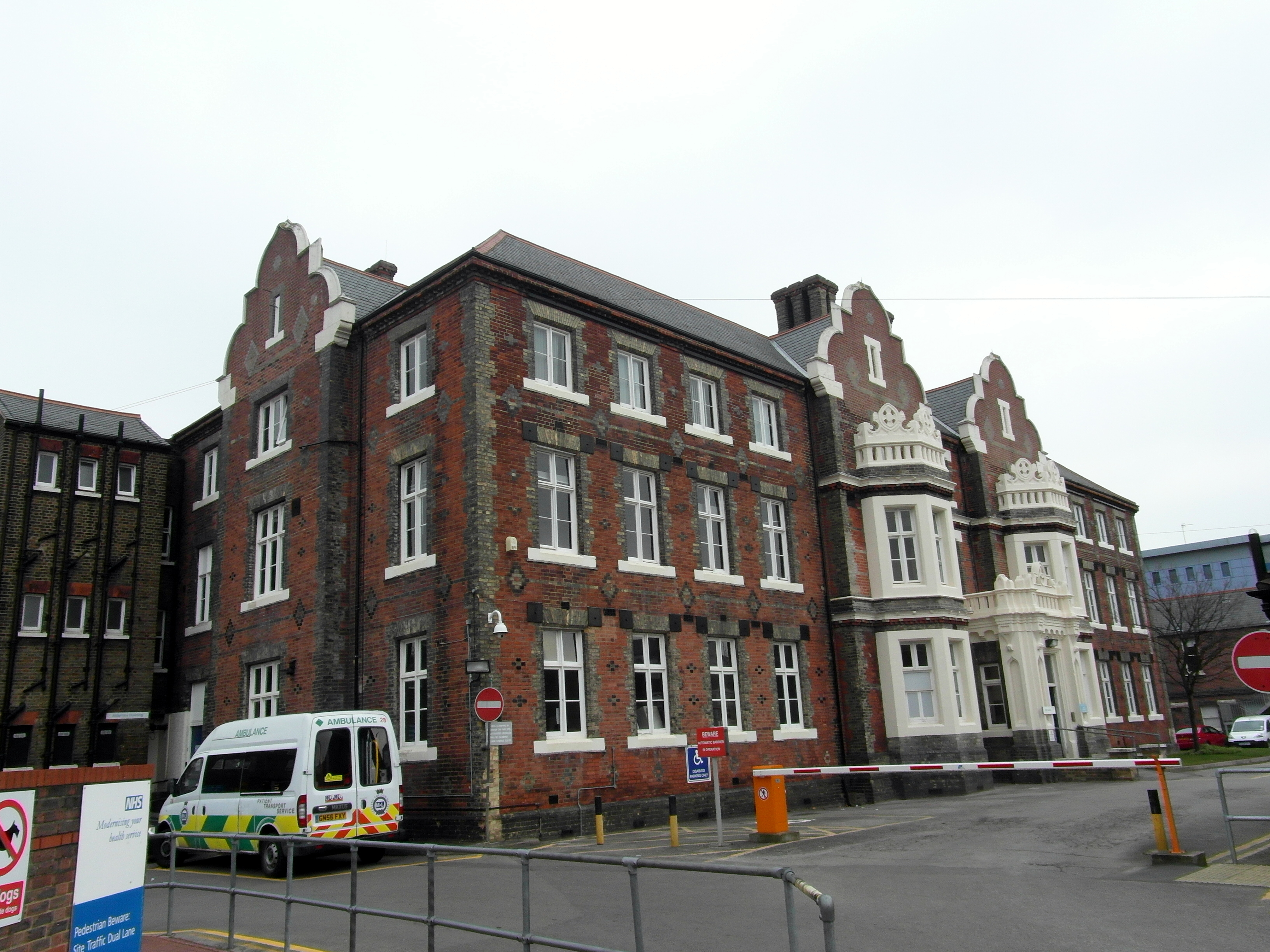 AlderneyBuilding, Bancroft Road, Mile End. Part of the former Mile End Workhouse, designed by William Dobson and built in 1856-8.